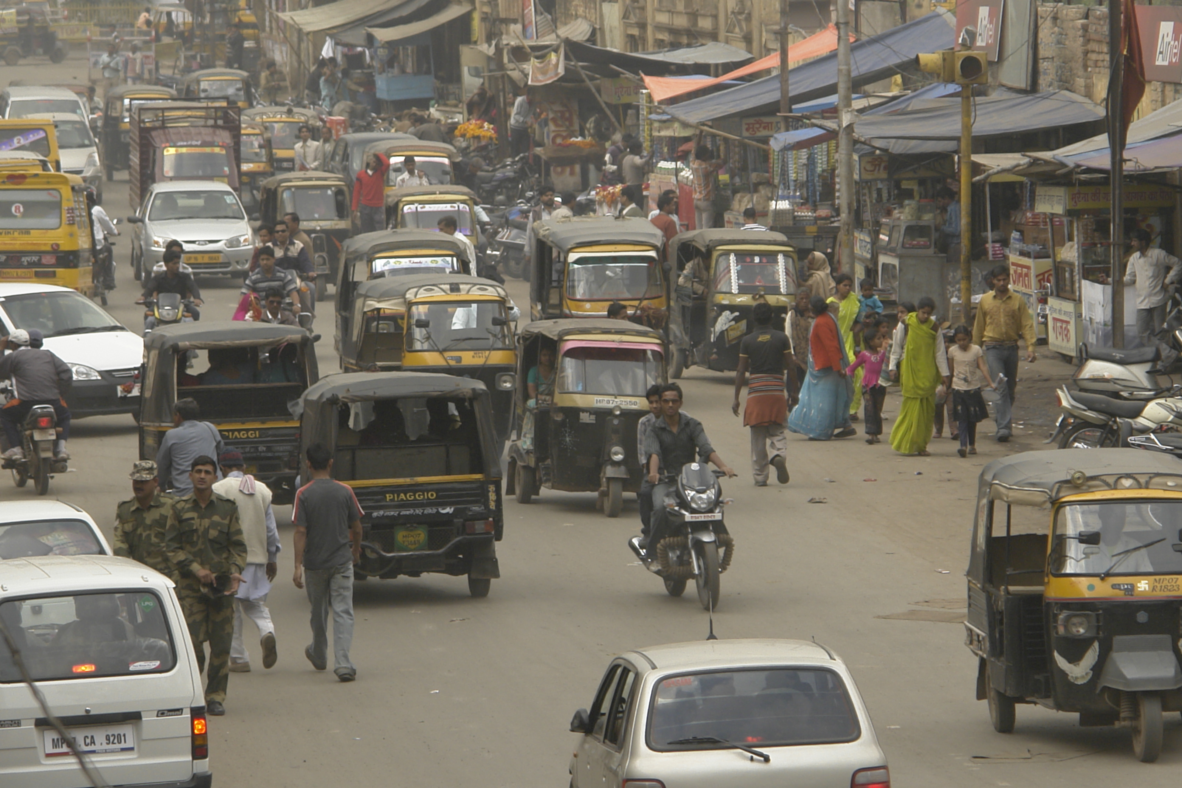 Traffic in Gwalior, India.